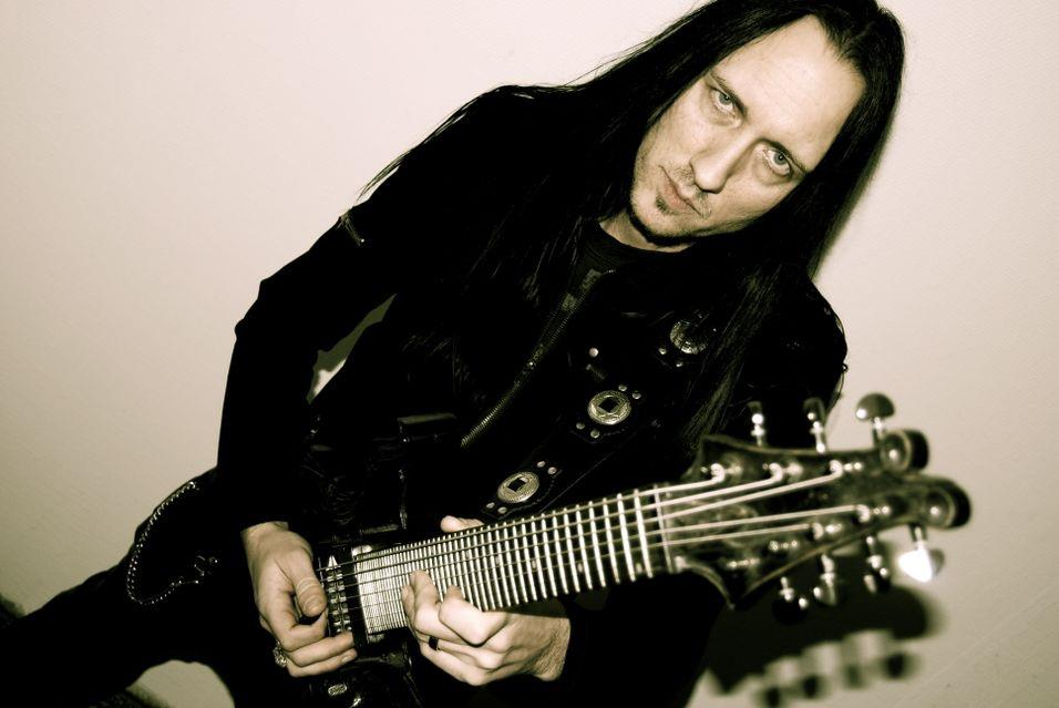 Guitarplayer in Massive Audio Nerve (M.A.N), ex- Dream Evil.